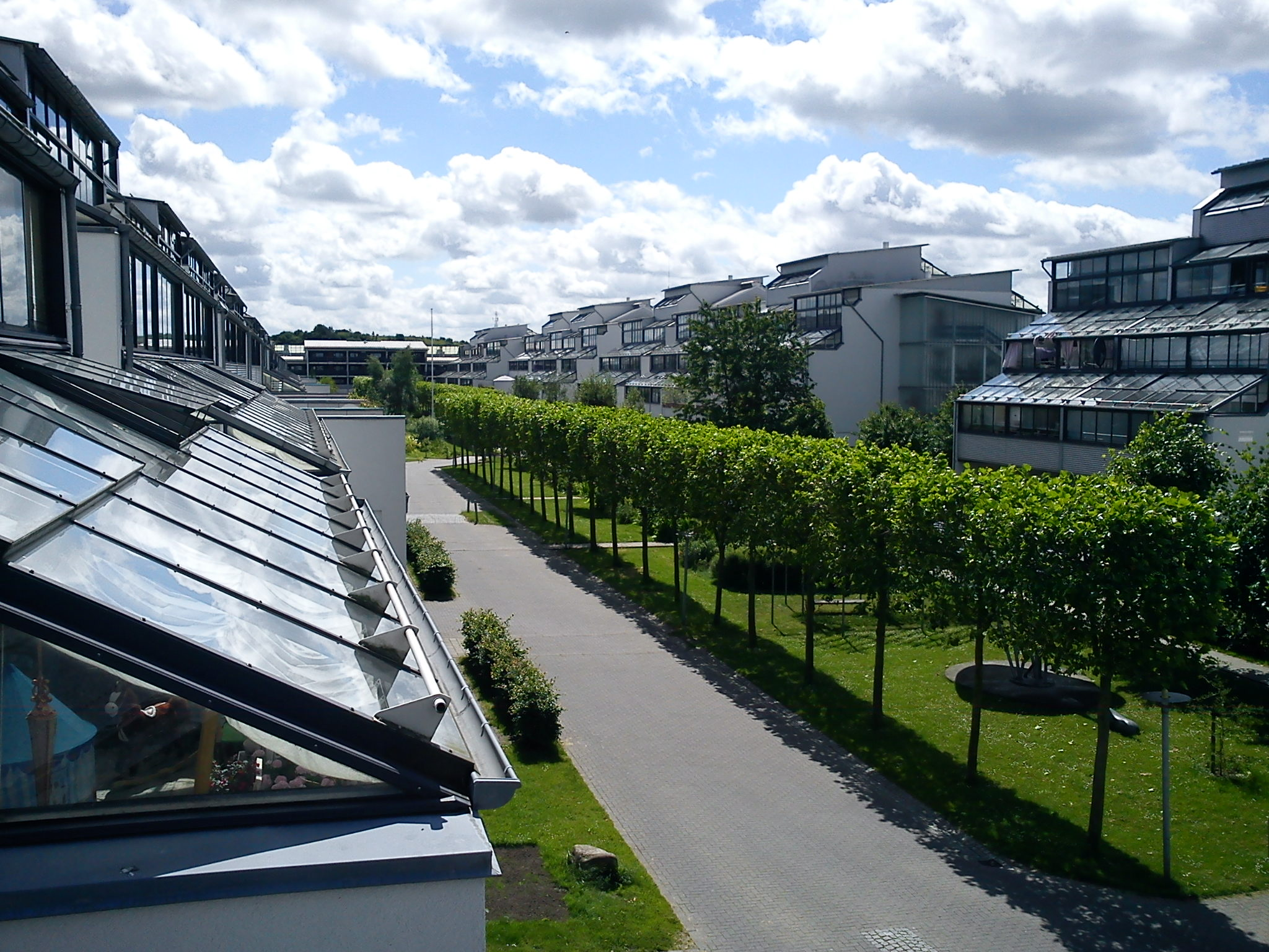 Holmstrup